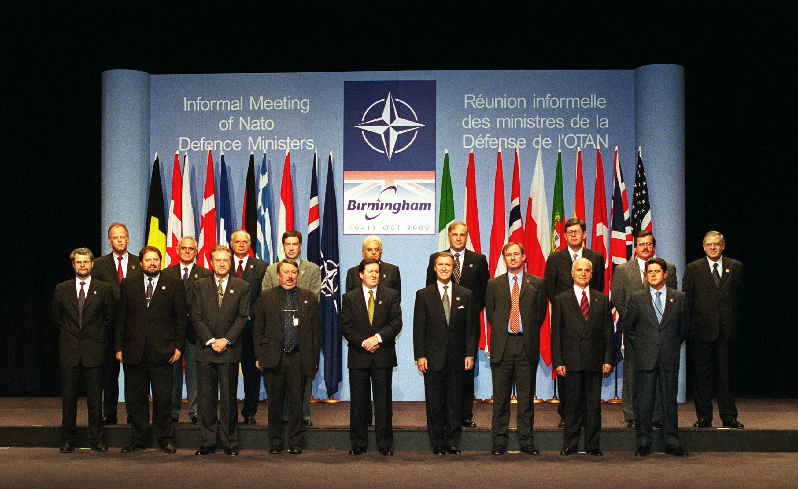 Defense ministers of NATO nations pose as a group for photographers at the annual Informal Meeting of NATO Defense Ministers in Birmingham, England, on Oct. 10, 2000. Each Autumn a different member of the 19-nation security alliance hosts the informal meeting in which a range of security issues are freely discussed, but no binding decisions are made. All binding agreements are left to the biannual defense ministerial held at NATO Headquarters in Brussels, Belgium. 1st Row, left to right: Hans Haekkerup, minister of defense, Denmark; Vladimir Vetchy, minister of defense, the Czech Republic; Arthur Eggleton, minister of defense, Canada; Andre Flahaut, minister of defense, Belgium; Lord George Robertson, NATO Secretary General; William S. Cohen, secretary of defense, USA; Geoffrey Hoon, secretary of state for defense, the United Kingdom; Sabahattin Cakmakoglu, minister of defense, Turkey; Federico Trillo, minister of defense, Spain. Back Row, left to right: Rudolf Scharping, minister of defense, Germany; Apostolos-Athanasios Tsohatzopoulos, minister of defense, Greece; Janos Szabo, minister of defense, Hungary; Gunnar Palsson, Iceland's ambassador to NATO; Sergio Mattarella, minister of defense, Italy; Charles Goerens, minister of defense, Luxembourg; Bjorn Tore Godal, minister of defense, Norway; Bronislaw Komorowski, minister of defense, Poland, and Julio Castro Caldas, minister of defense, Portugal. DoD photo by R. D. Ward. (Released)